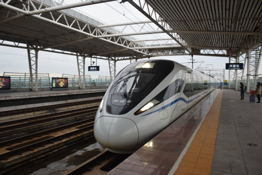 CRH1A（ZEFIRO 250）EMU, a new generation of CRH1A EMU , which bombardier designed from ZEFIRO high speed train . 8 -car-train , 2 doors per side of a car , made by Aluminum alloy , ability to carry 613 passengers , the highest speed : 250KM/H First commercial run in 1st Feb , in GuangZhou-ZhuHai inter-city line.